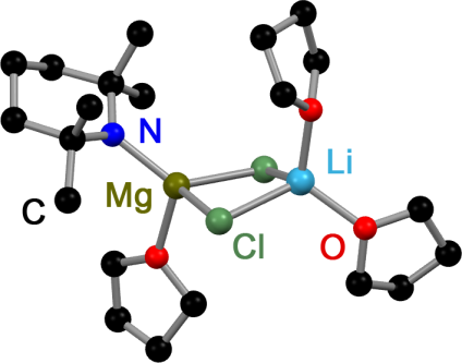 TMP-Turbo Hauser Base in the solid state